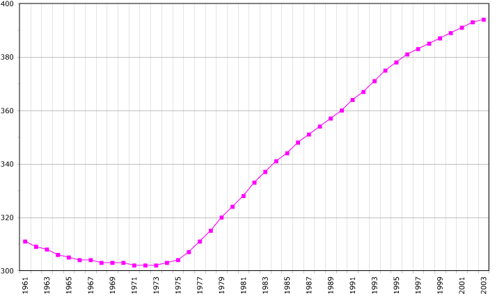 Malta's population (1961-2003). Y-axis: Number of inhabitants in thousands.